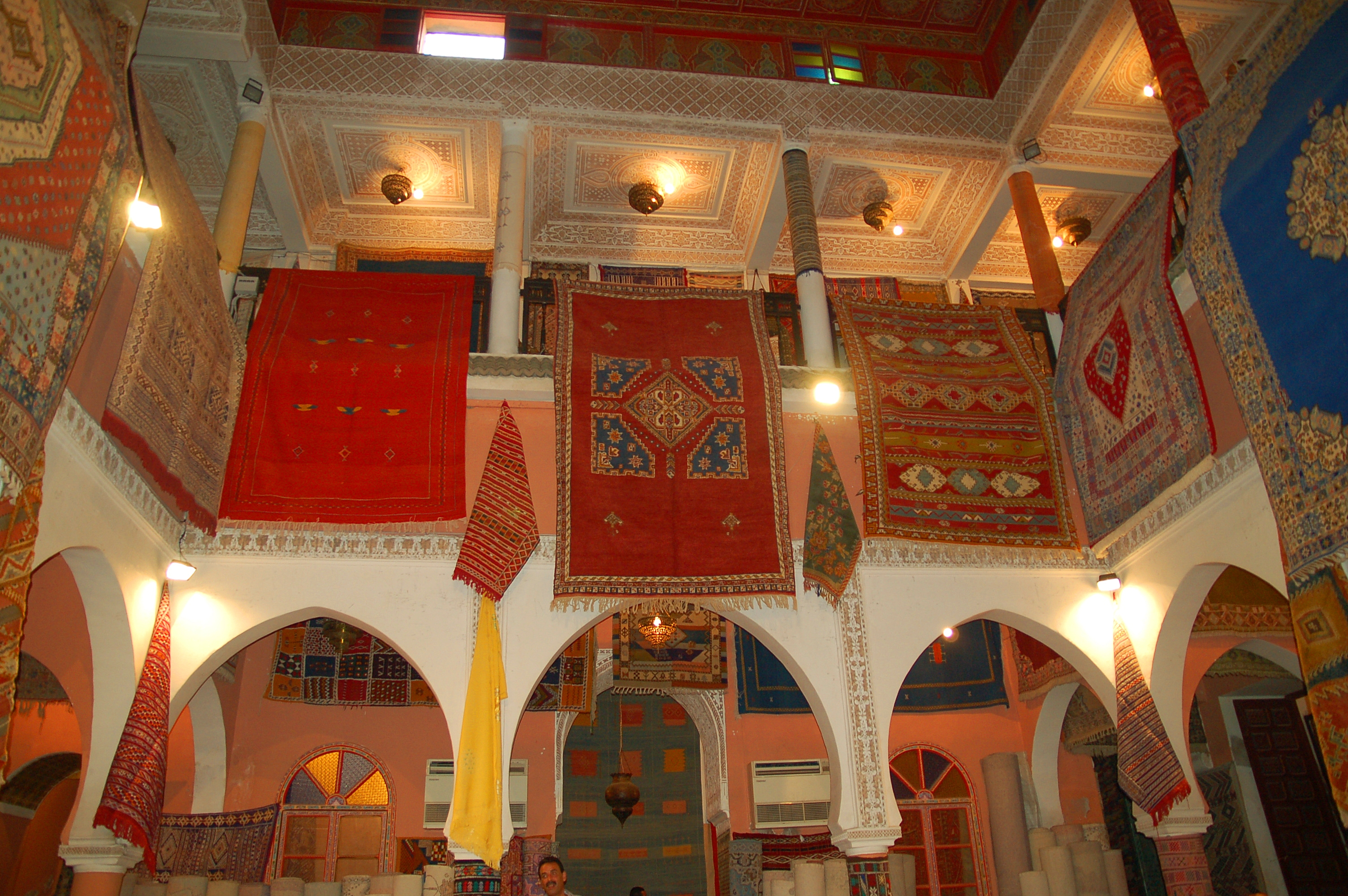 Maroc Marrakech city Souk